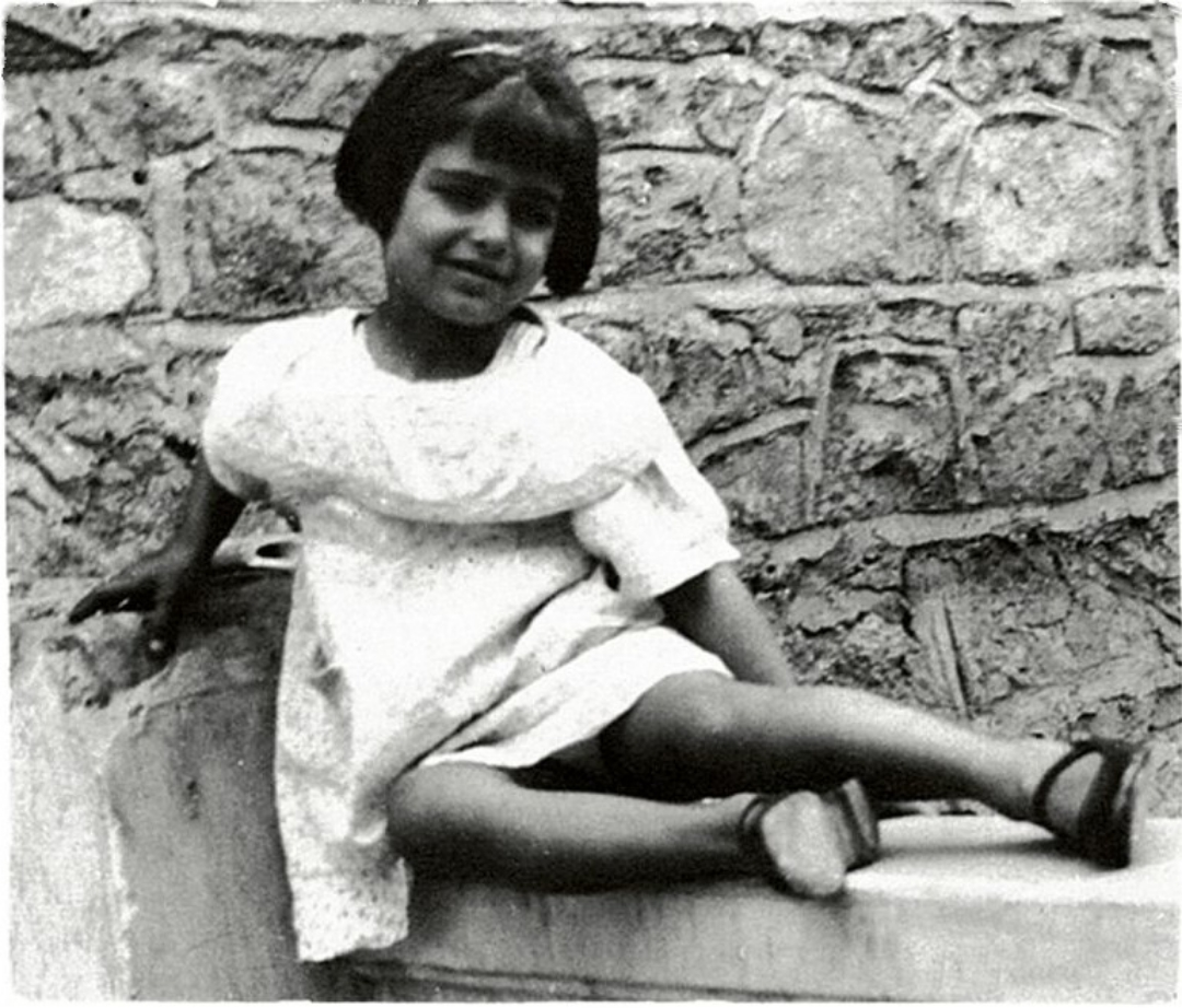 Four year old Dalida in Cairo.